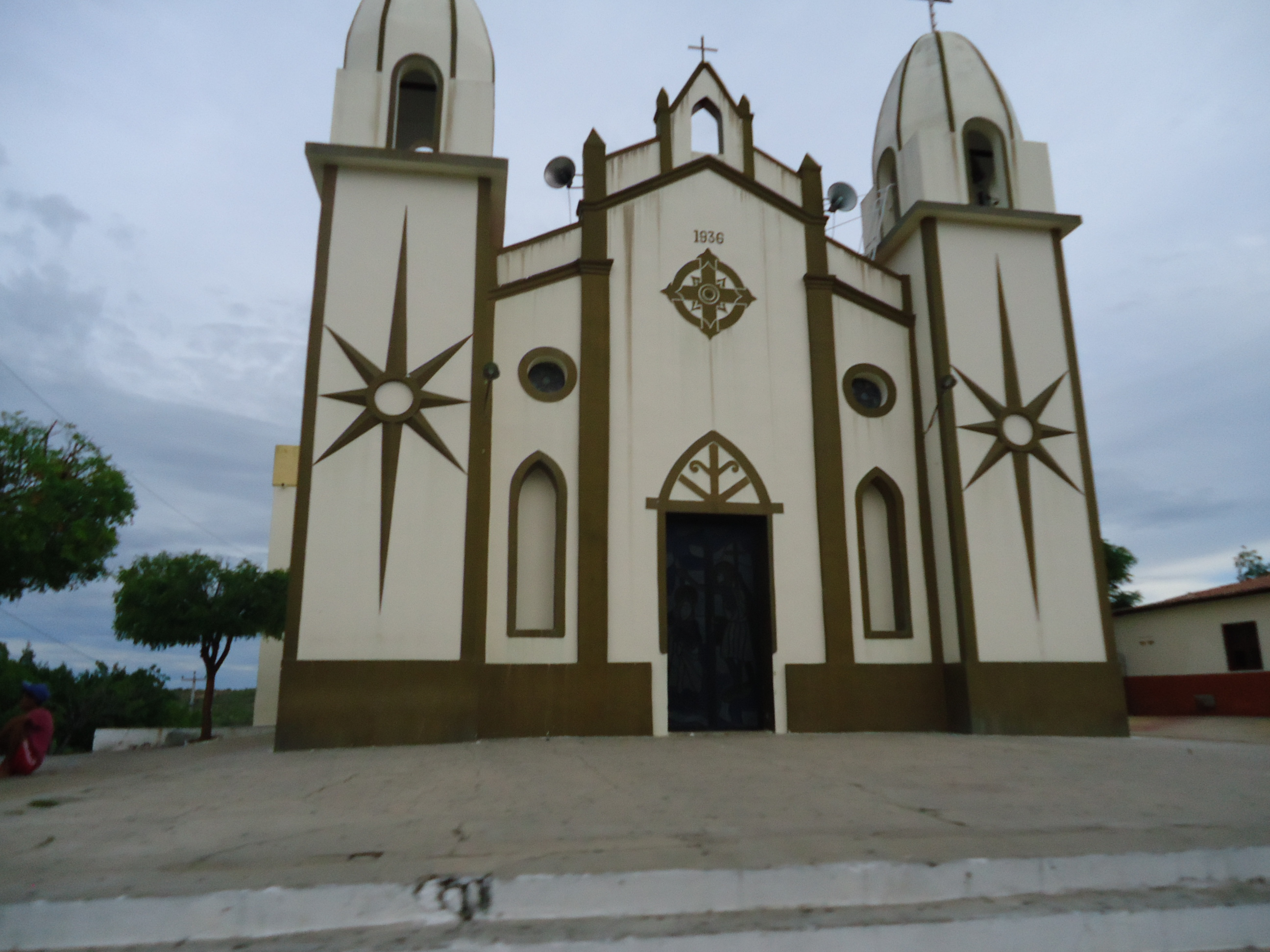 Church of Santa Terezinha, in Feiticeiro, Jaguaribe, Ceará, Brazil.